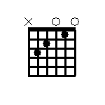 C major chord for guitar in open position. Beginners chord.